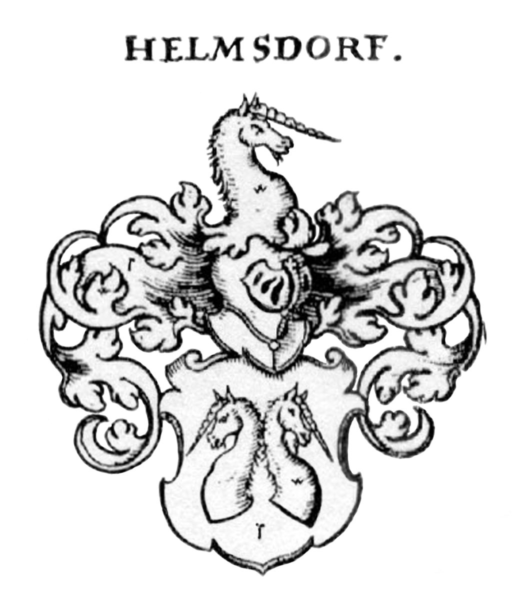 Coat of arms of Helmsdorf